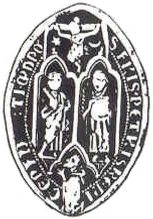 The seal of the Swedish monk Petrus de Dacia